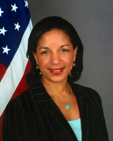 Susan Rice, US Ambassador to the UN.